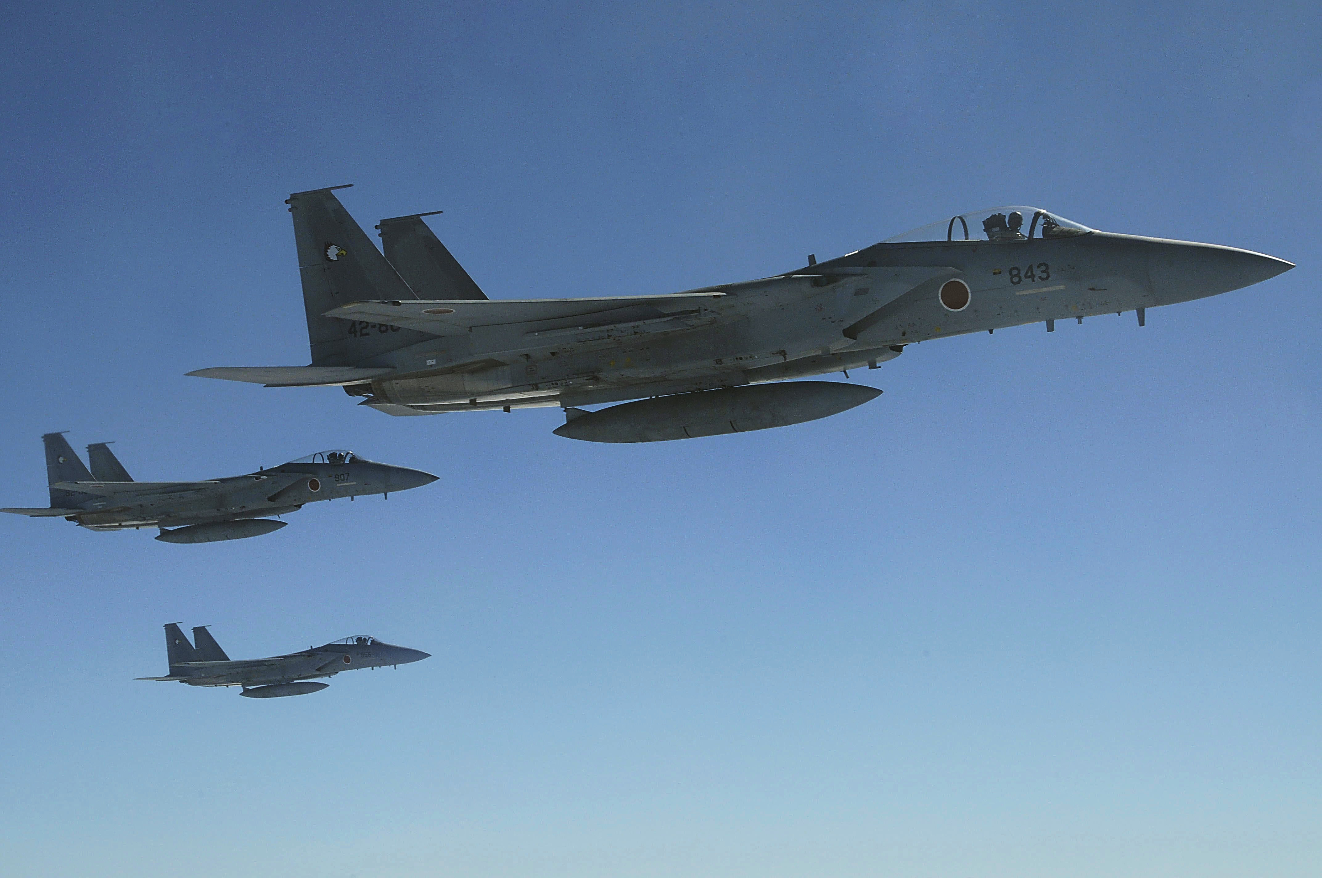 Three F-15J (843, 907, 955) of 204 Sqn fly through the air during the joint refueling training between the 909th Refueling Squadron and Japan Air Self Defense Forces, Dec. 17. This training improved biliteral relationships between the 18th Wing and JASDF members. (U.S. Air Force photo/Staff Sgt. Darnell T. Cannady) Nikon D300